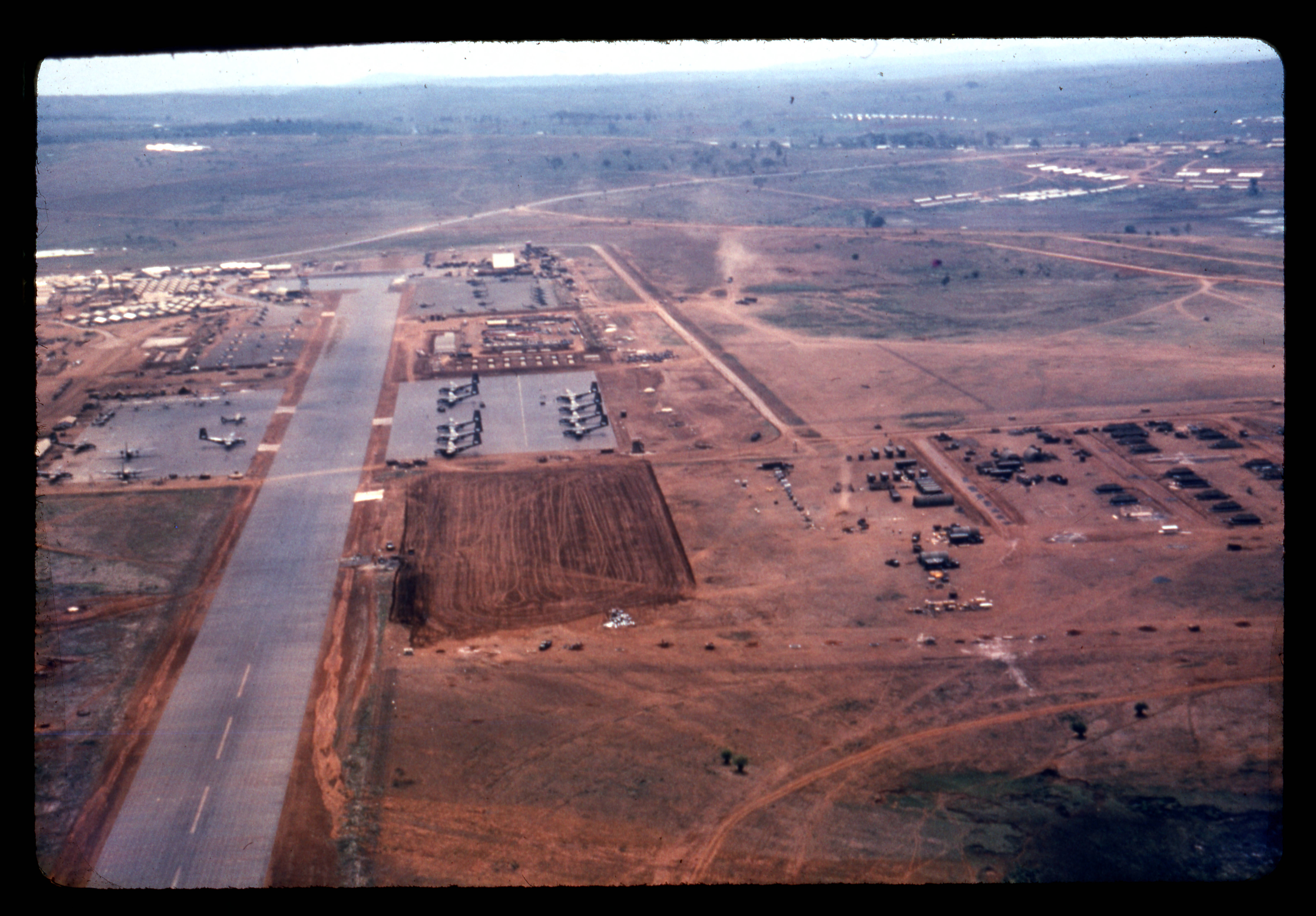 The area in the center of this photograph is the site of an aircraft maintenance facility now being built at Camp Holloway near Pleiku. The concrete access ramps for this facility are nearly complete and grading is underway for a 380 ft by 800 ft apron which is to be covered with T-17 membrane. The area behind the apron will be used for two hangars, a warehouse and a 250-man cantonment. The project is scheduled to be completed in July 66.